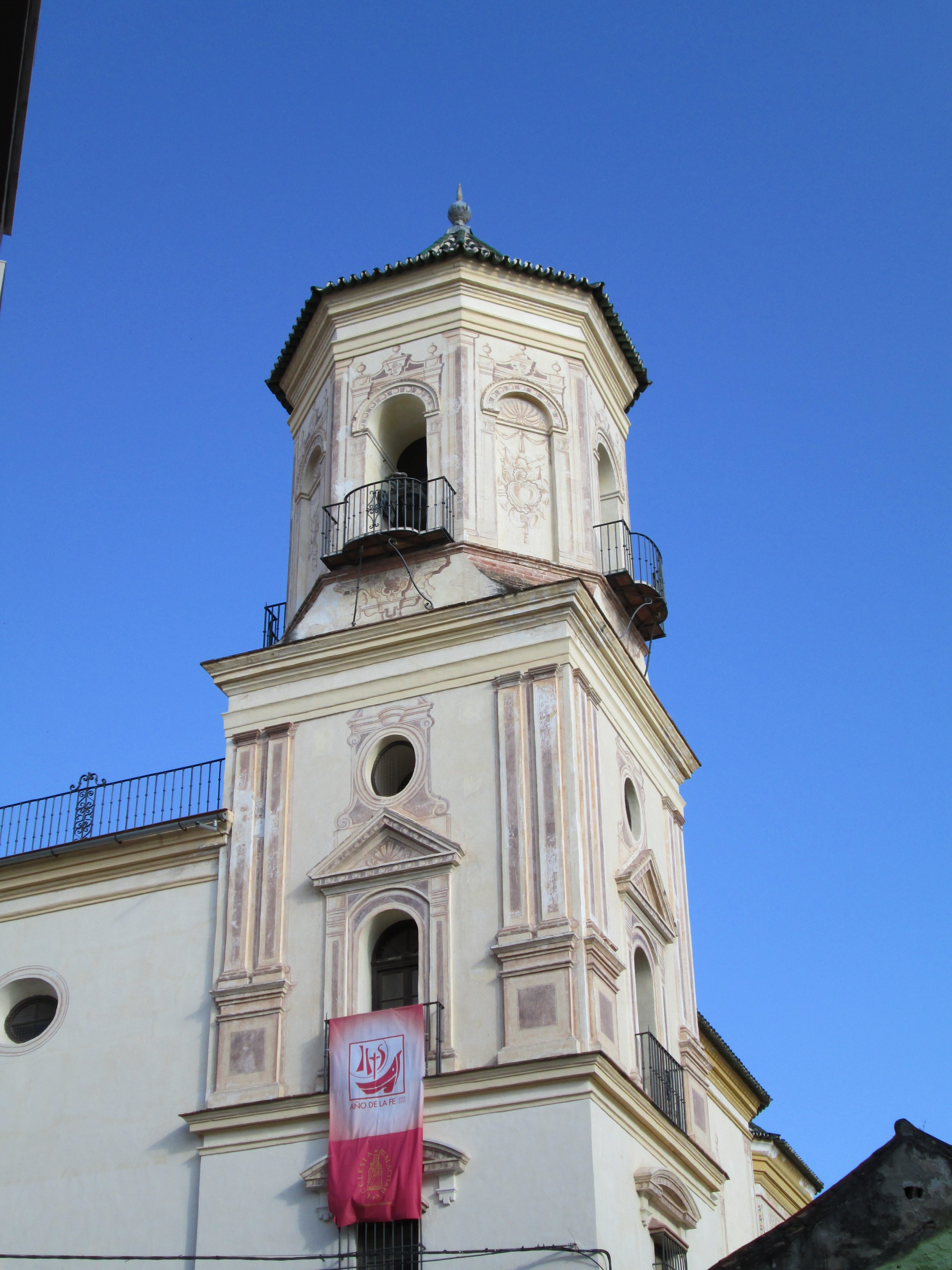 Church of San Felipe Neri, Málaga